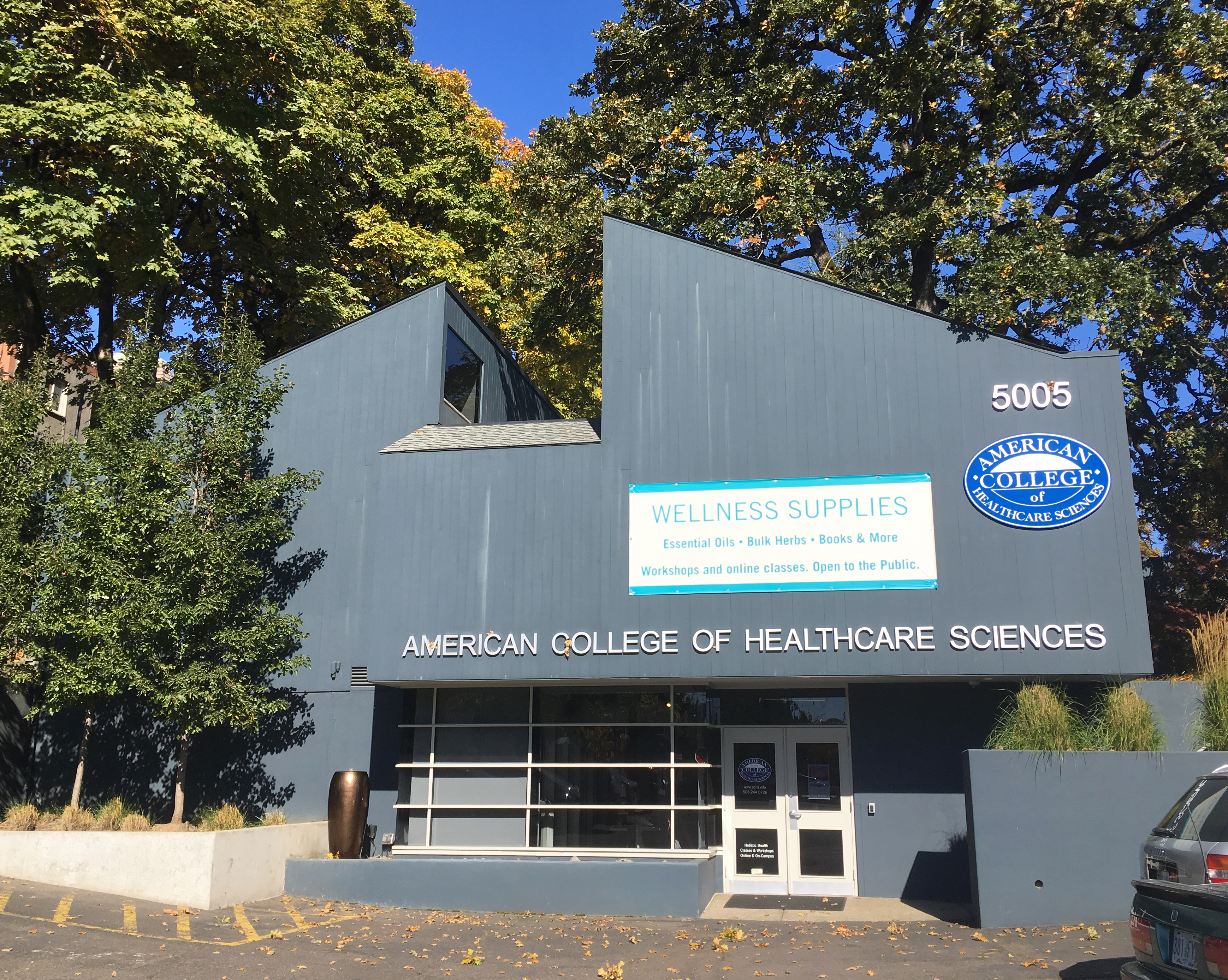 ACHS office building in Portland, Oregon